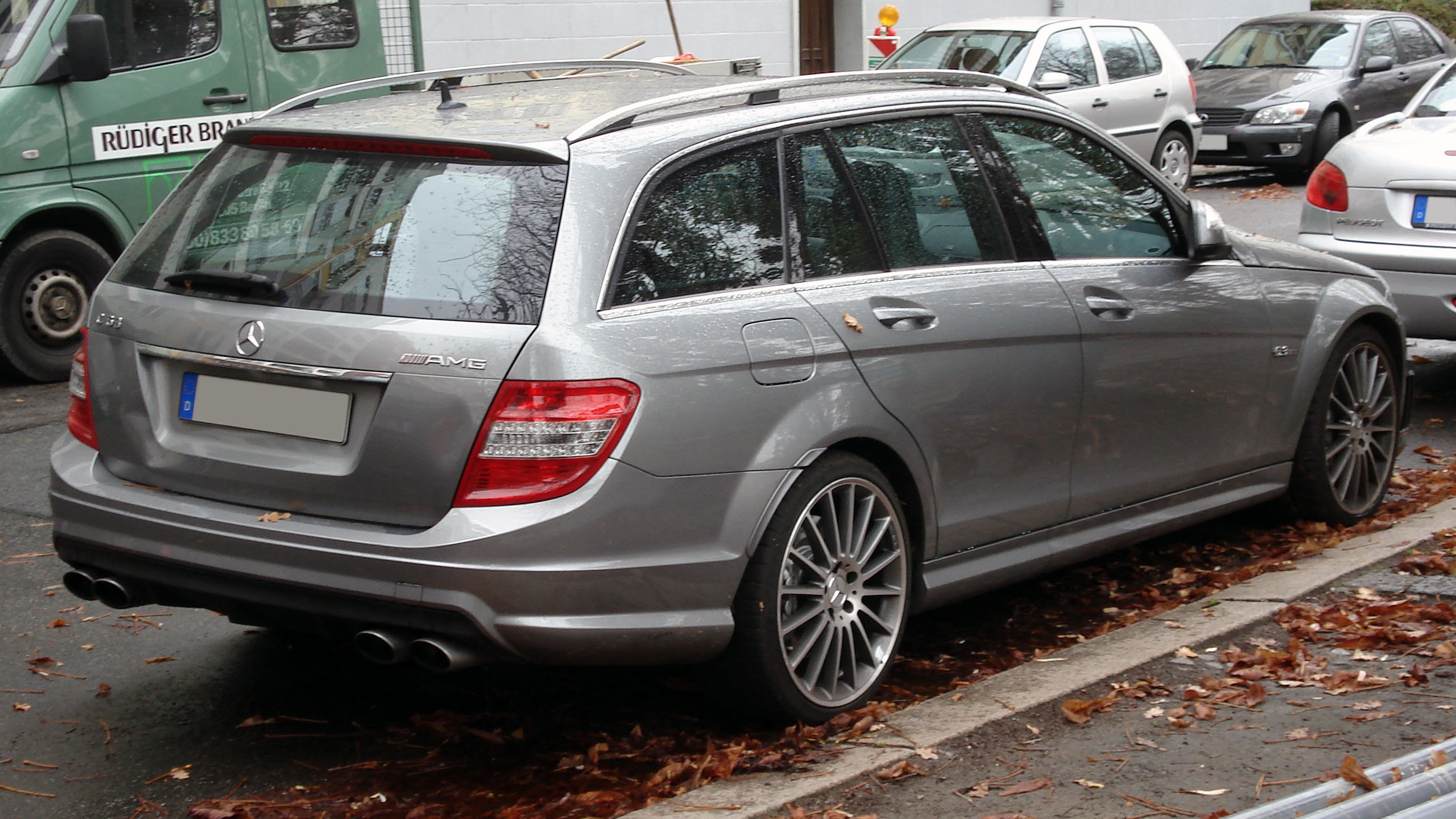 Mercedes-Benz C 63 AMG